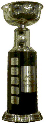 Avco World Trophy